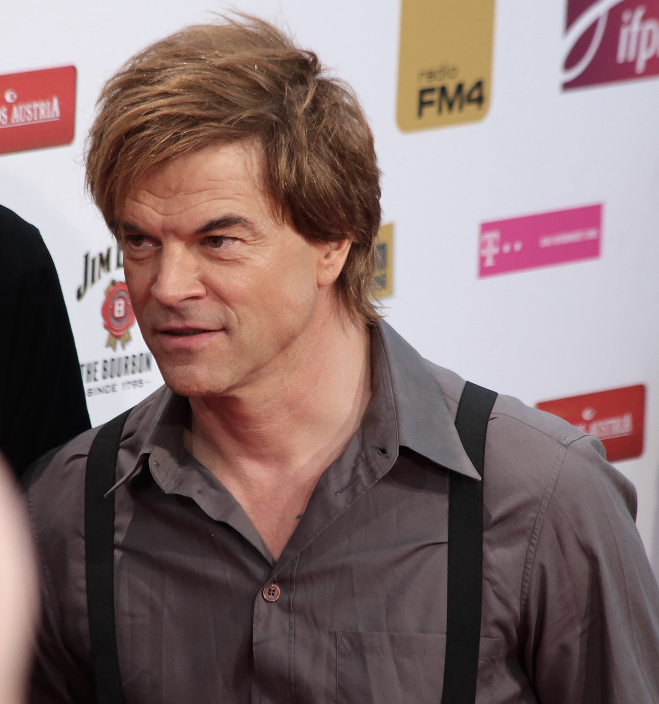 Campino at the Amadeus Austrian Music Award at Volkstheater in Vienna